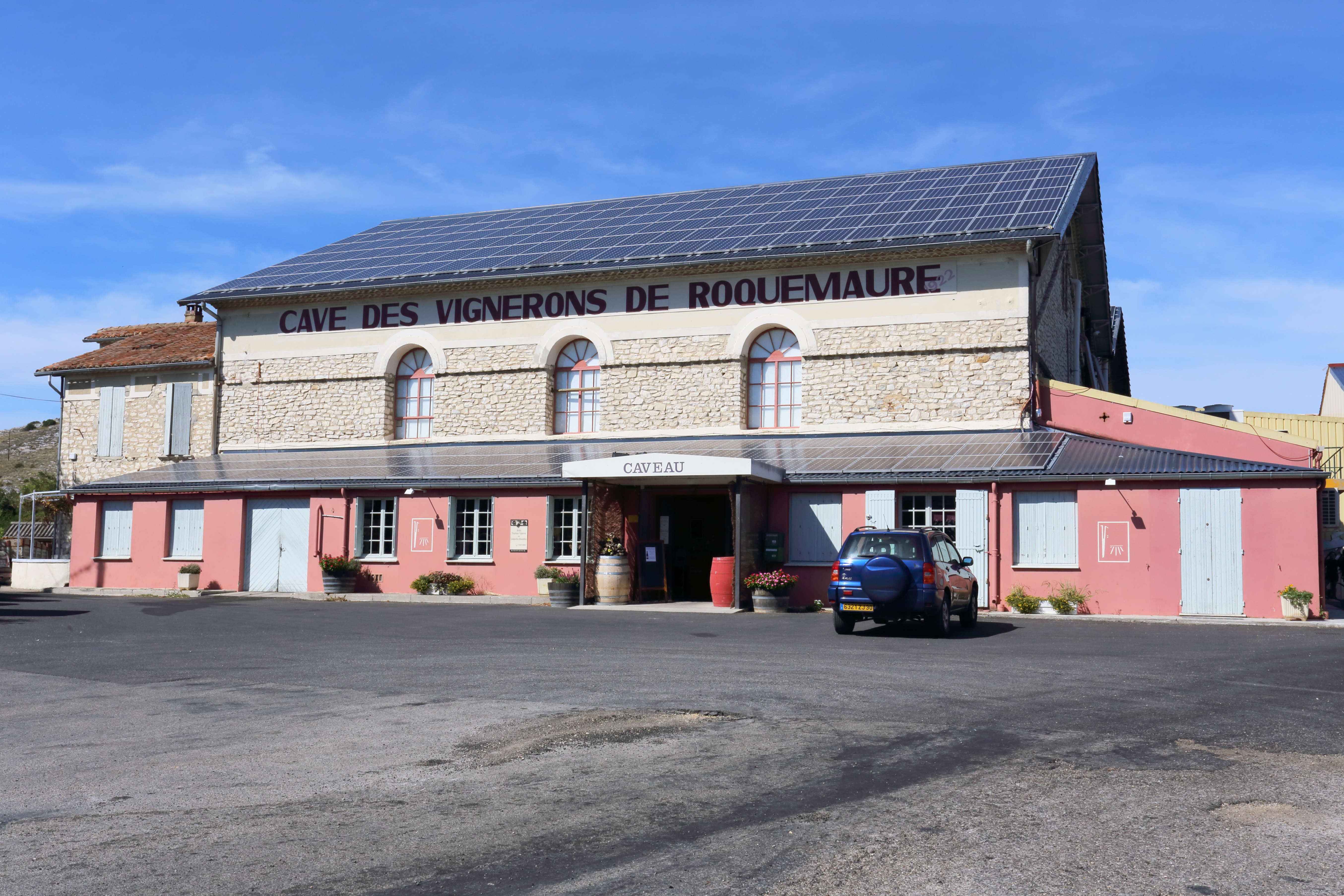 The home of the winemaking cooperative, "Les Vignerons de Roquemaure", which was established in 1922.